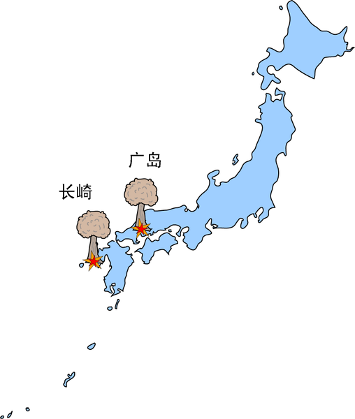 Map of Japan with location of Hiroshima and Nagasaki